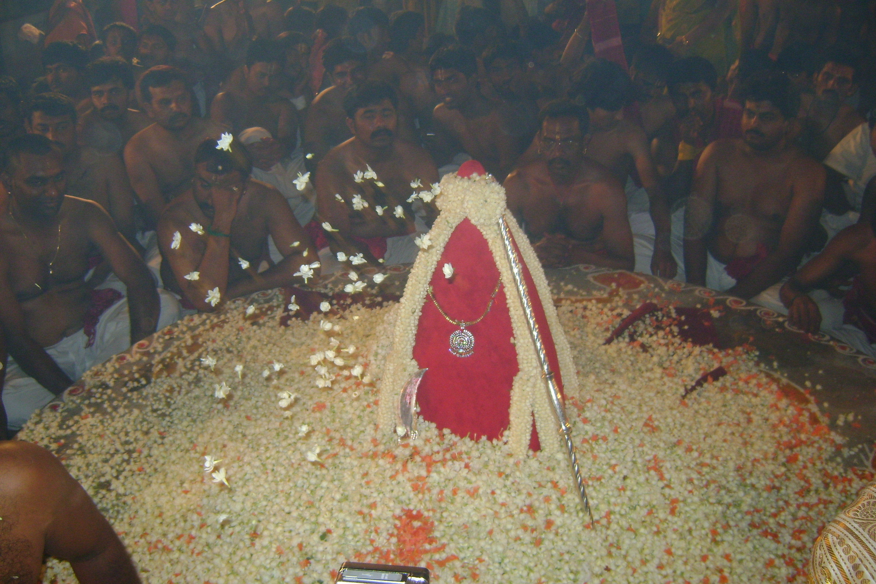 Pache Karagu or (Kannada ಹಸಿ ಕರಗ ) is decorated with red cloth, jewellery and flowers which is placed on a peeta (altar) in Sampangi Tank Mantapa.